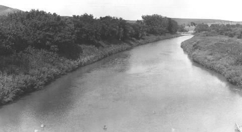 The Heart River near Mandan, North Dakota in en:1949. From site (file is